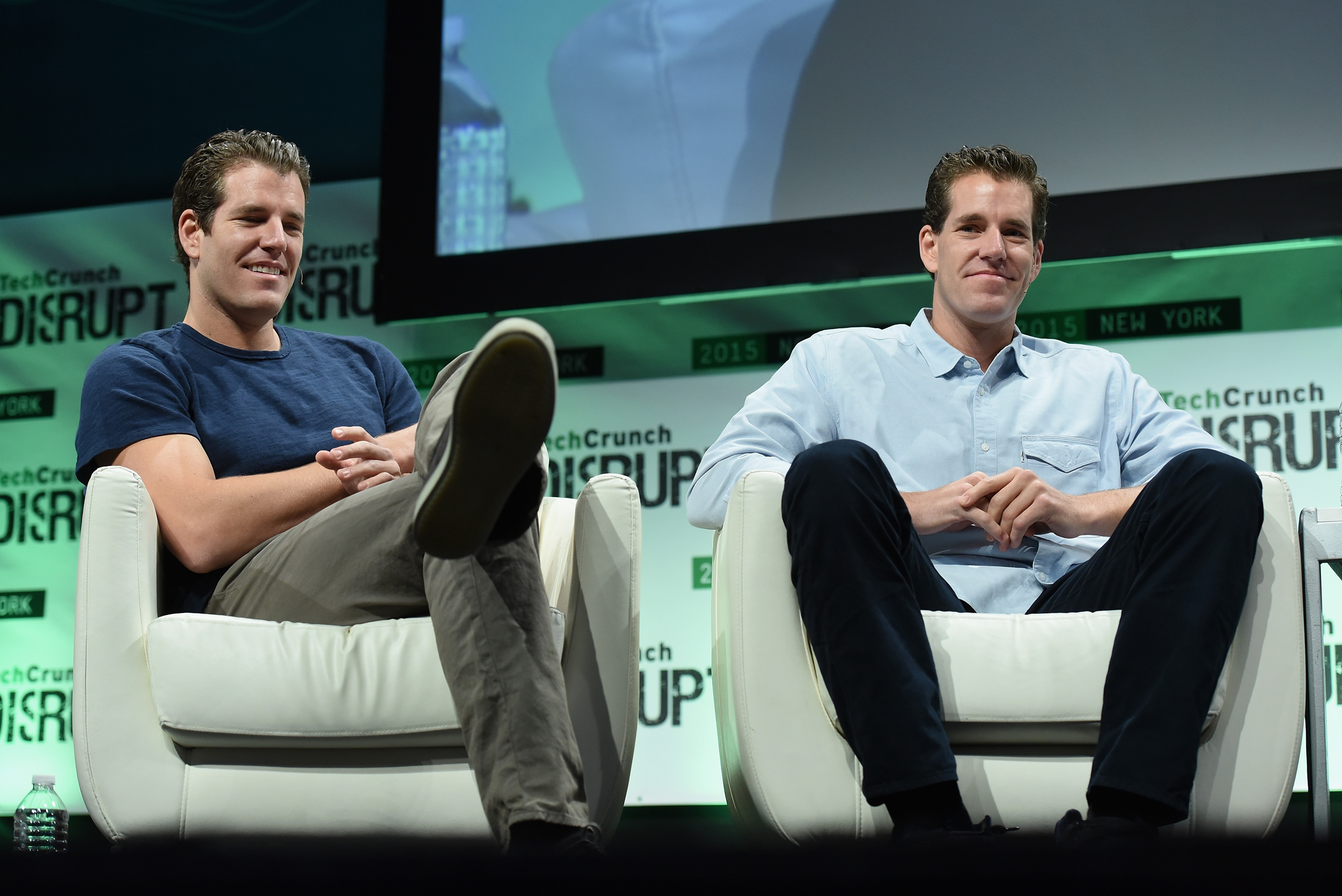 NEW YORK, NY - MAY 06: Co-Founders at Winklevoss Capital, Tyler Winklevoss (L) and Cameron Winklevoss speak onstage during TechCrunch Disrupt NY 2015 - Day 3 at The Manhattan Center on May 6, 2015 in New York City. (Photo by Noam Galai/Getty Images for TechCrunch)